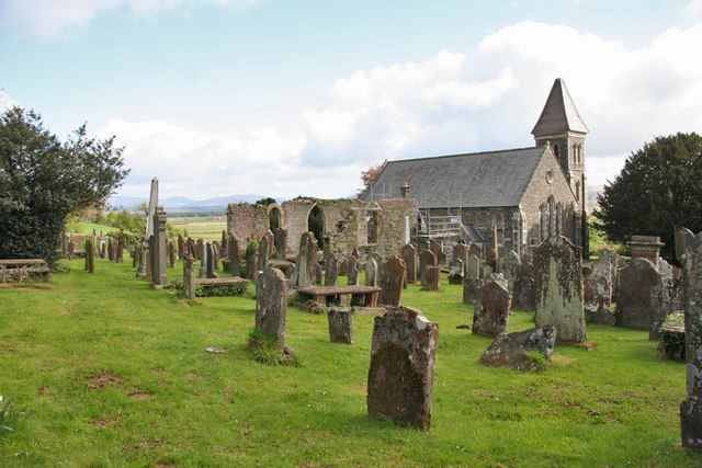 Church in Wigtown The ruins of St Machute's church alongside the current parish church.